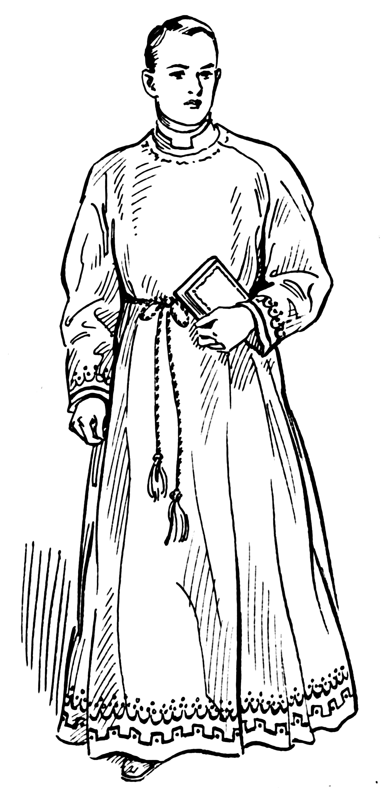 An illustration of the alb.